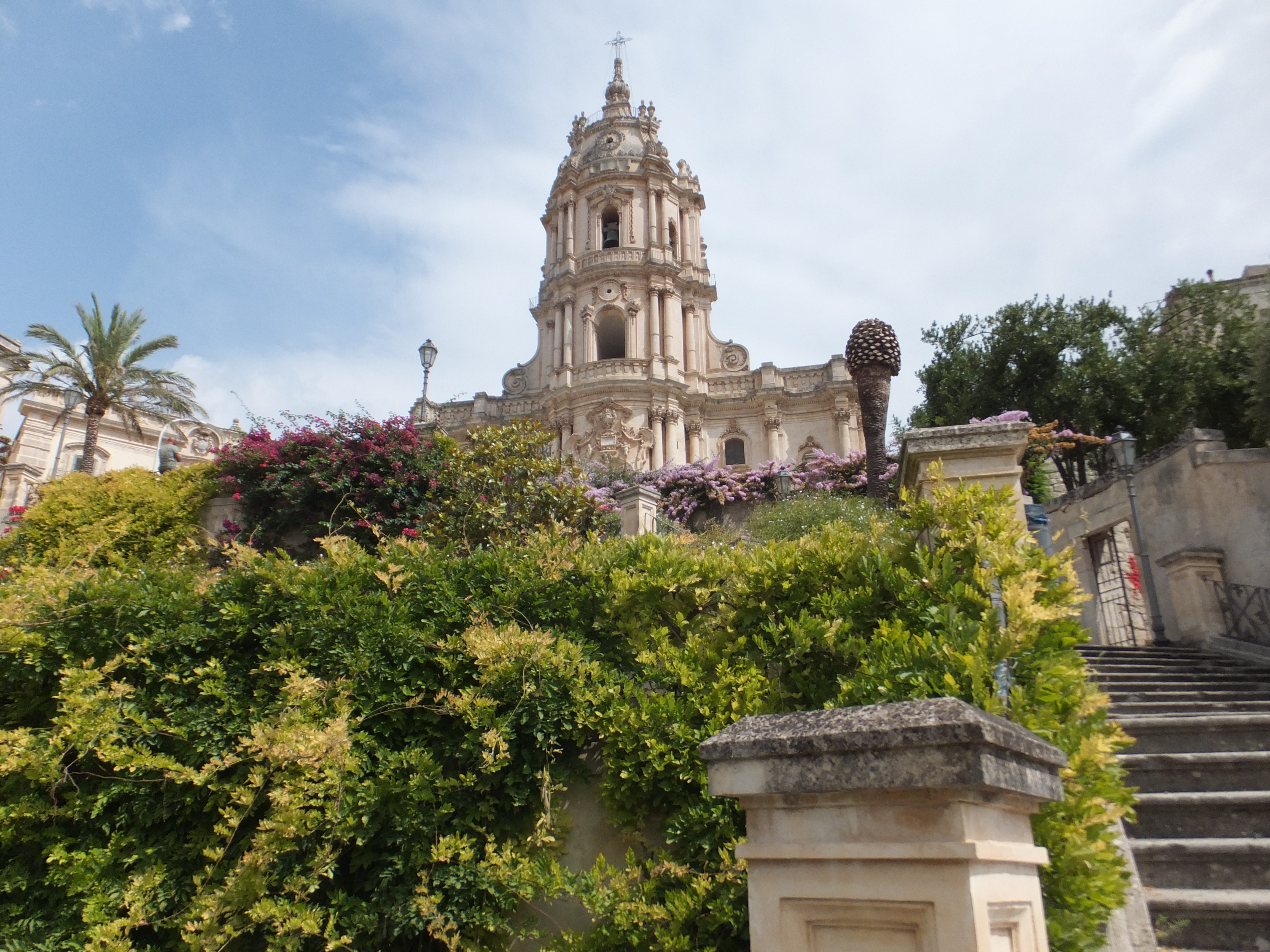 The Cathedral of San Giorgio is considered one of the great examples of Sicilian Baroque architecture and is distinguished as part of the world monumental heritage by UNESCO